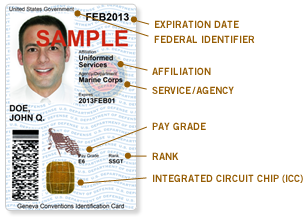 An up-to-date visual of a Common Access Card (CAC.) This is to replace ExampleCAC.jpg.